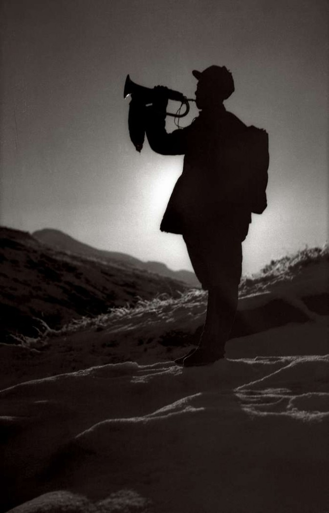 Eighth Route Army bugler in 1942, during the Second Sino-Japanese War.